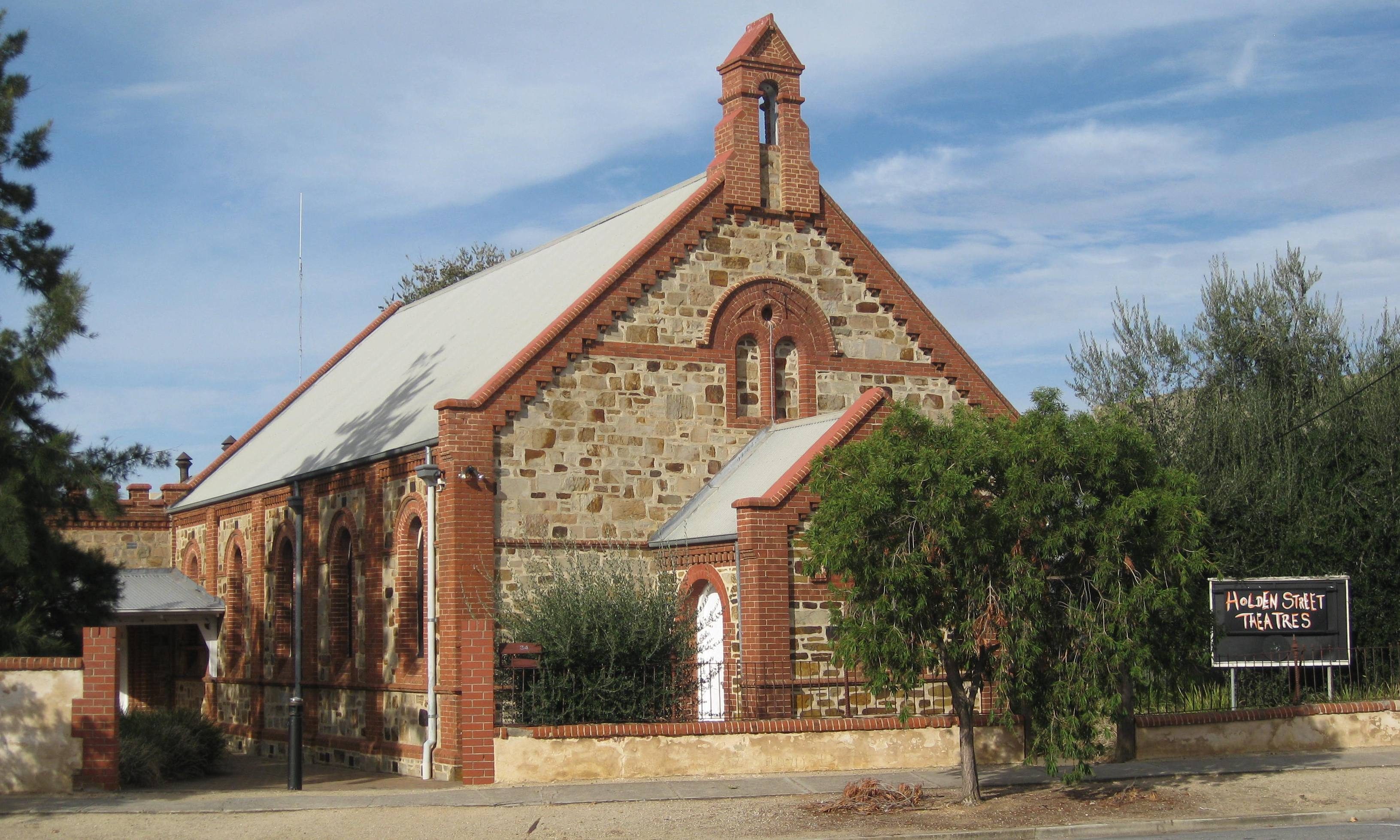 Holden Street Theatres, Hindmarsh (showing The Studio theatre).